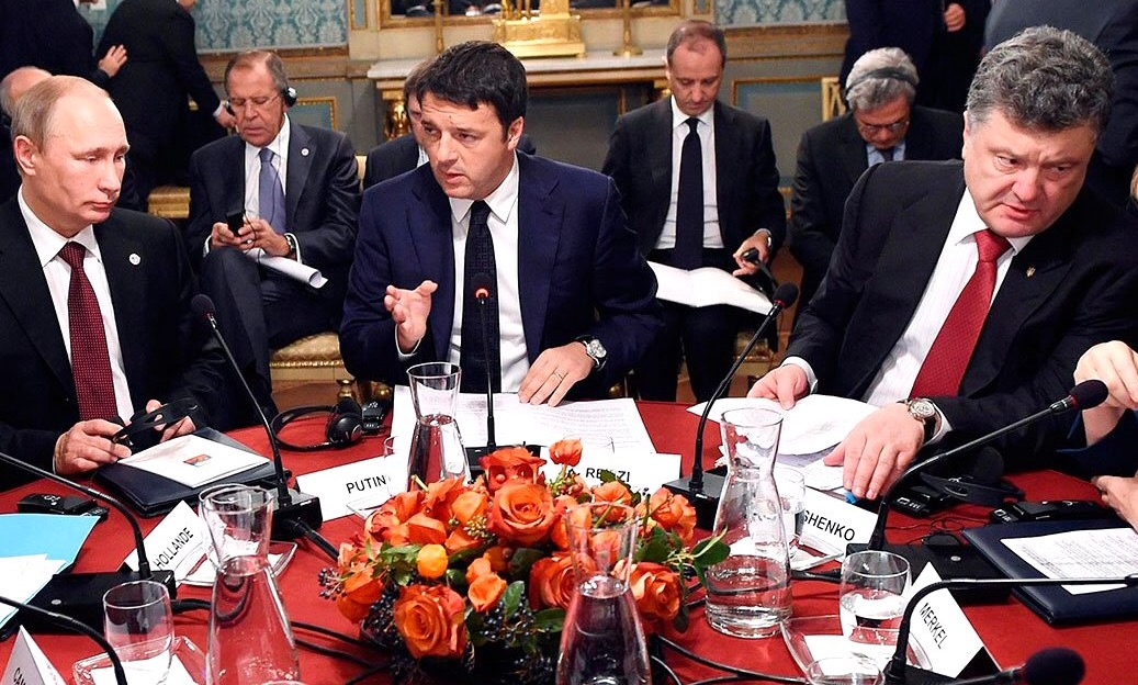 Vladimir Putin, Matteo Renzi and Petro Poroshenko